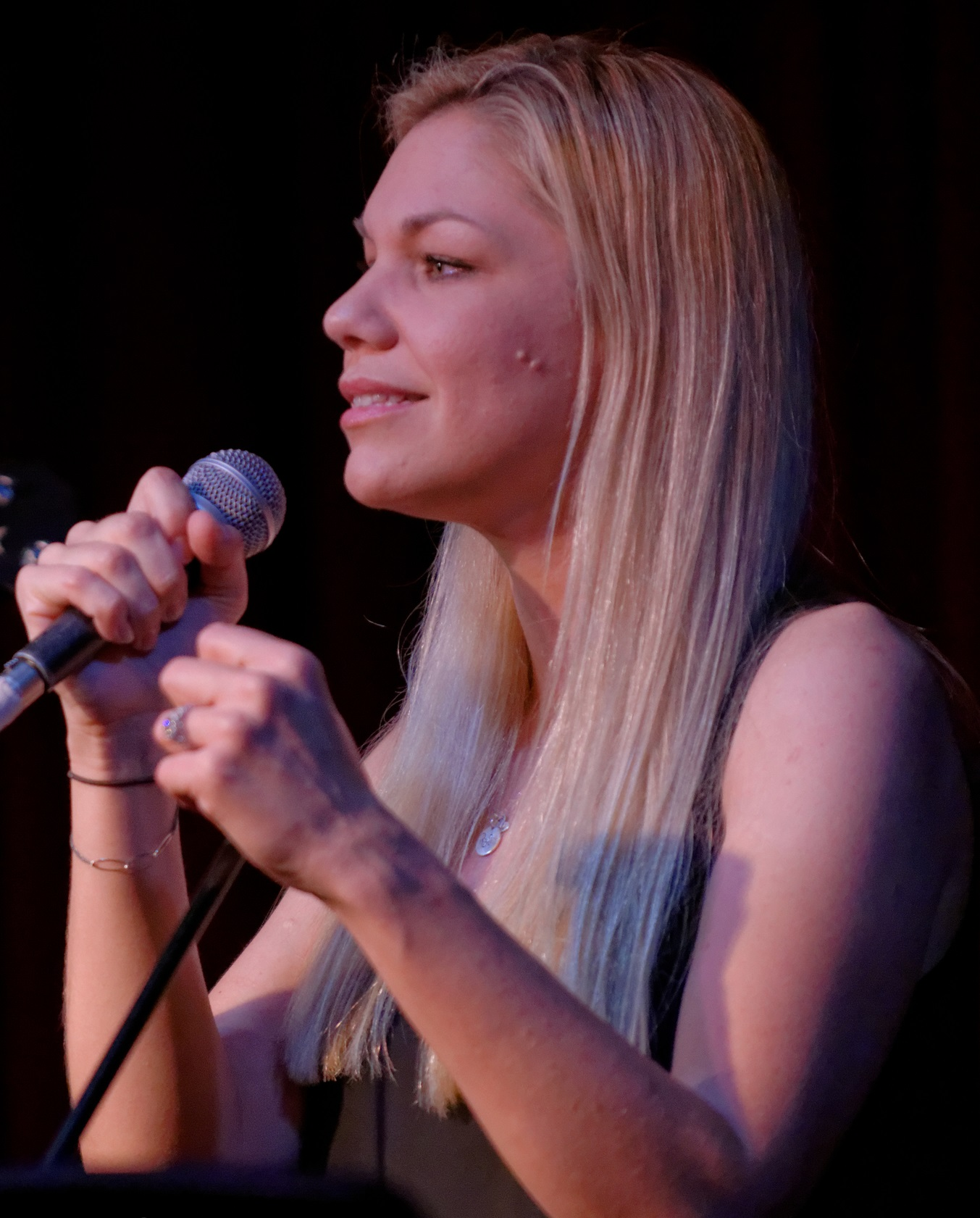 Kari Kimmel performing live at the Hotel Cafe in Los Angeles California on Friday July 25th, 2014.